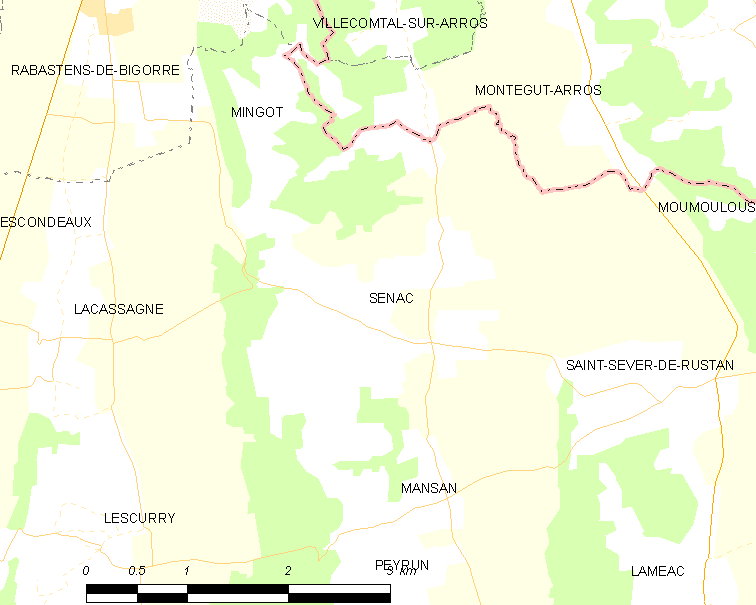 Map of French municipality